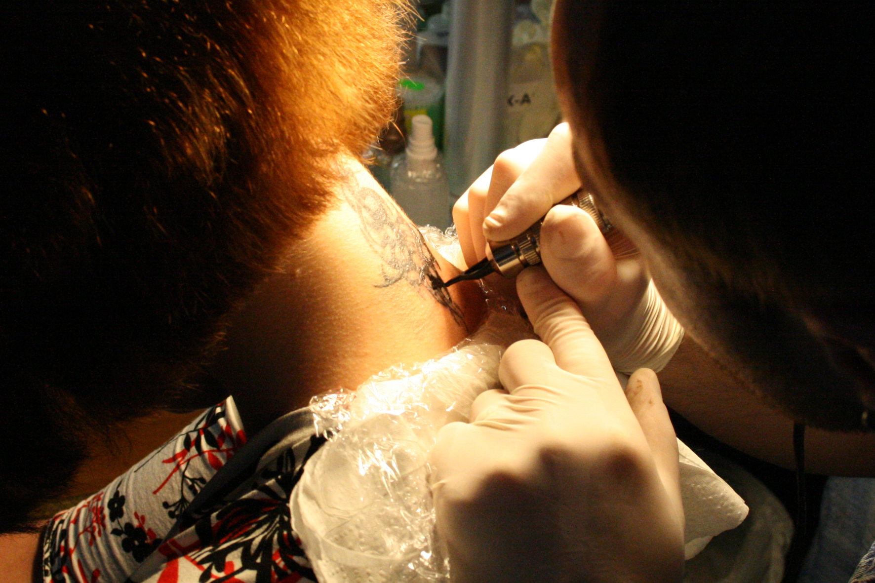 Tatoo Master's Work. Adding color.